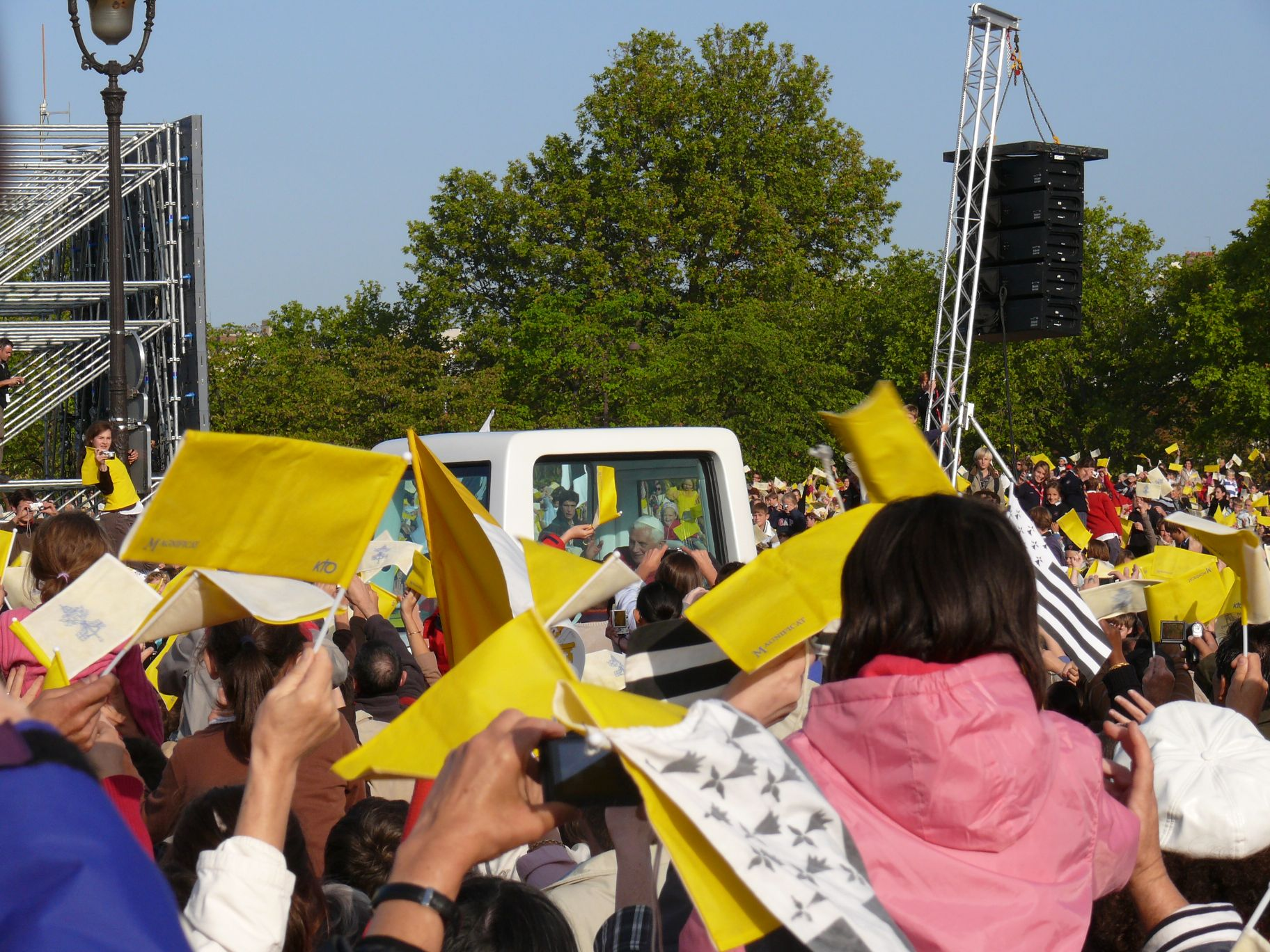 Pope Benedictus XVI in Paris (France) on September 13th 2008.